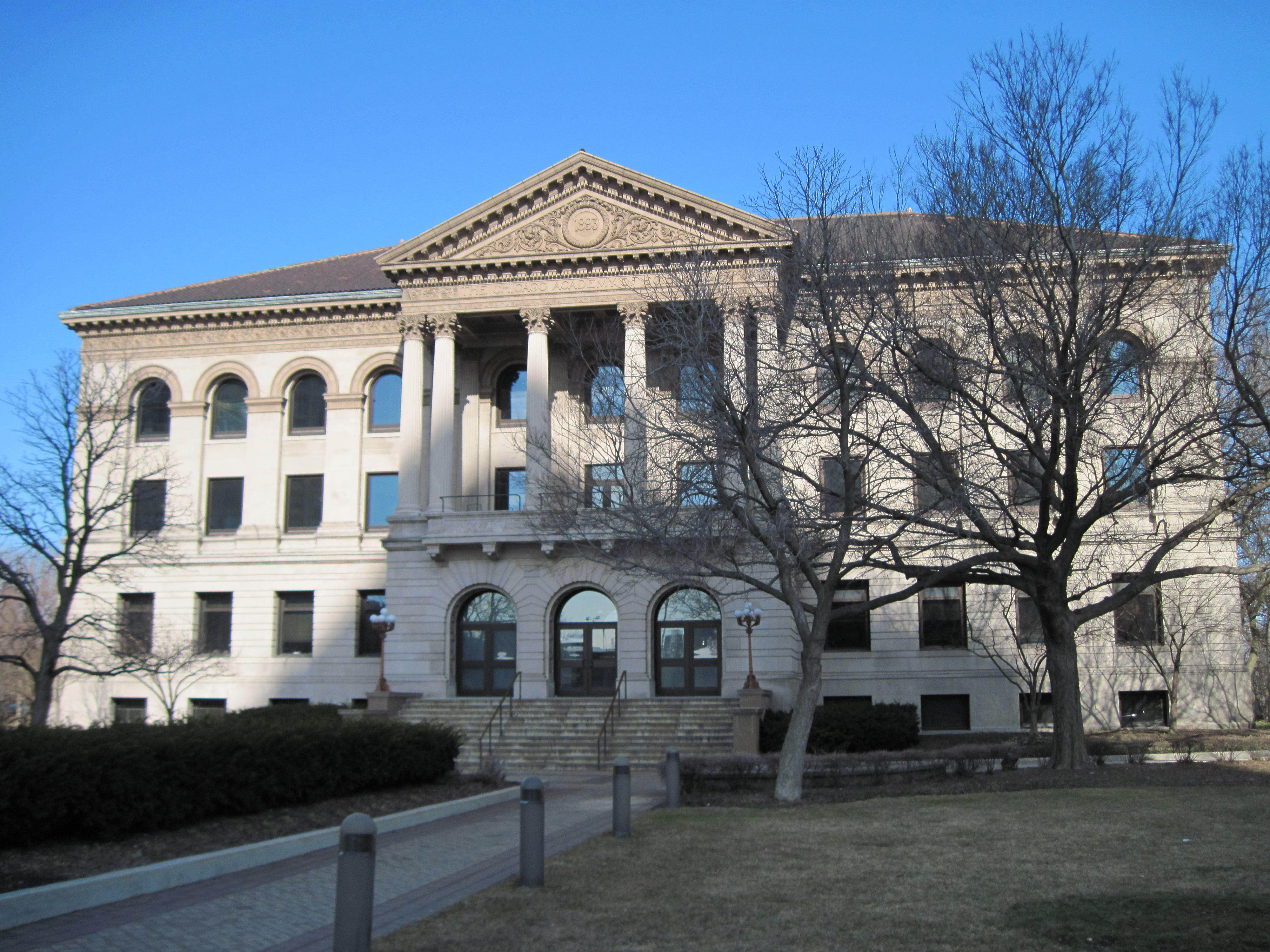 Matthew Laflin Memorial Building in Chicago; former home of the Chicago Academy of Sciences; now used as by the Lincoln Park Zoo for administrative purposes